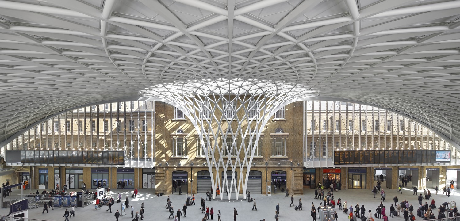 Kings Cross Station